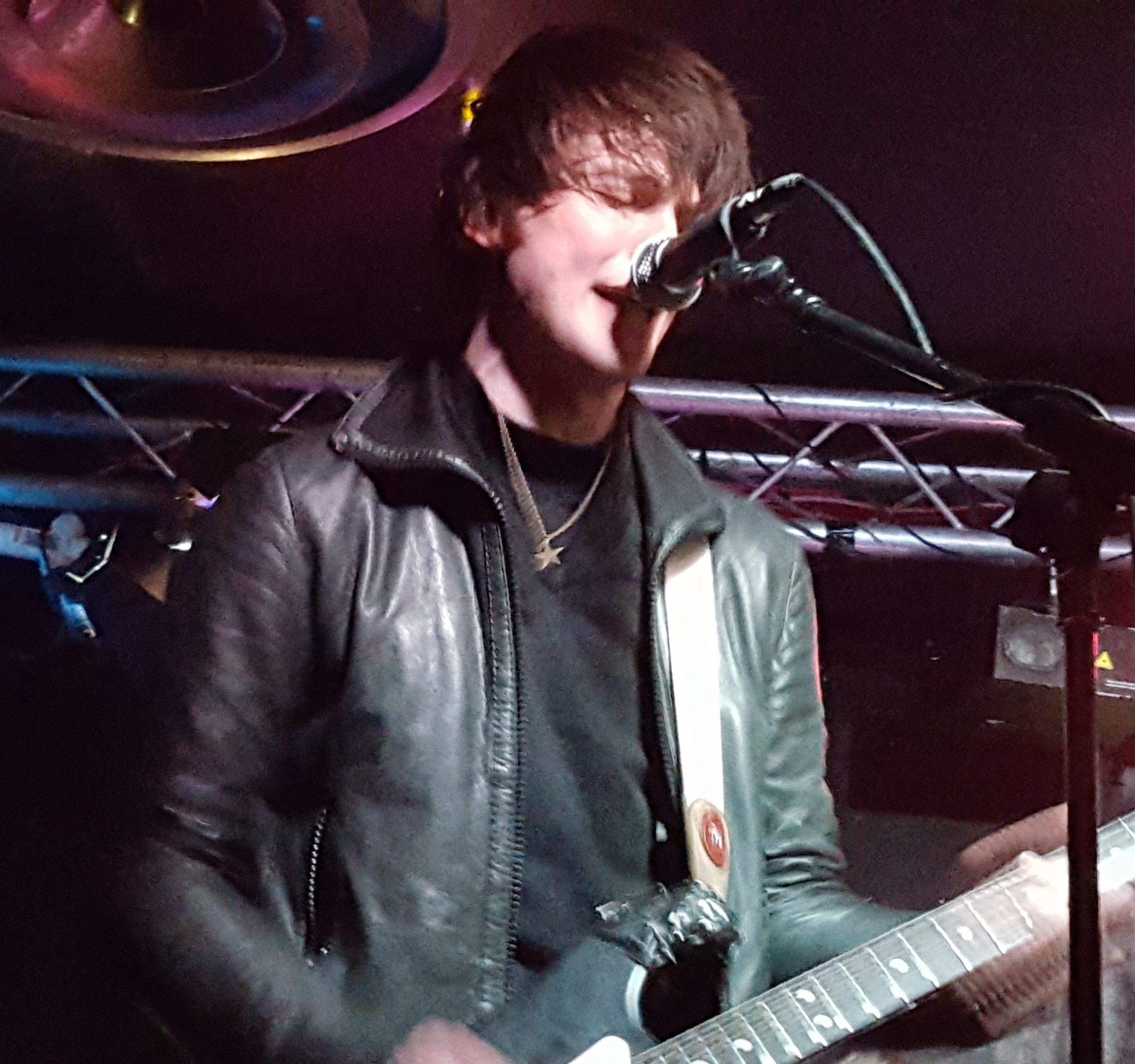 Jack Jones of Trampolene, photographed at Brixton Jamm February 2016